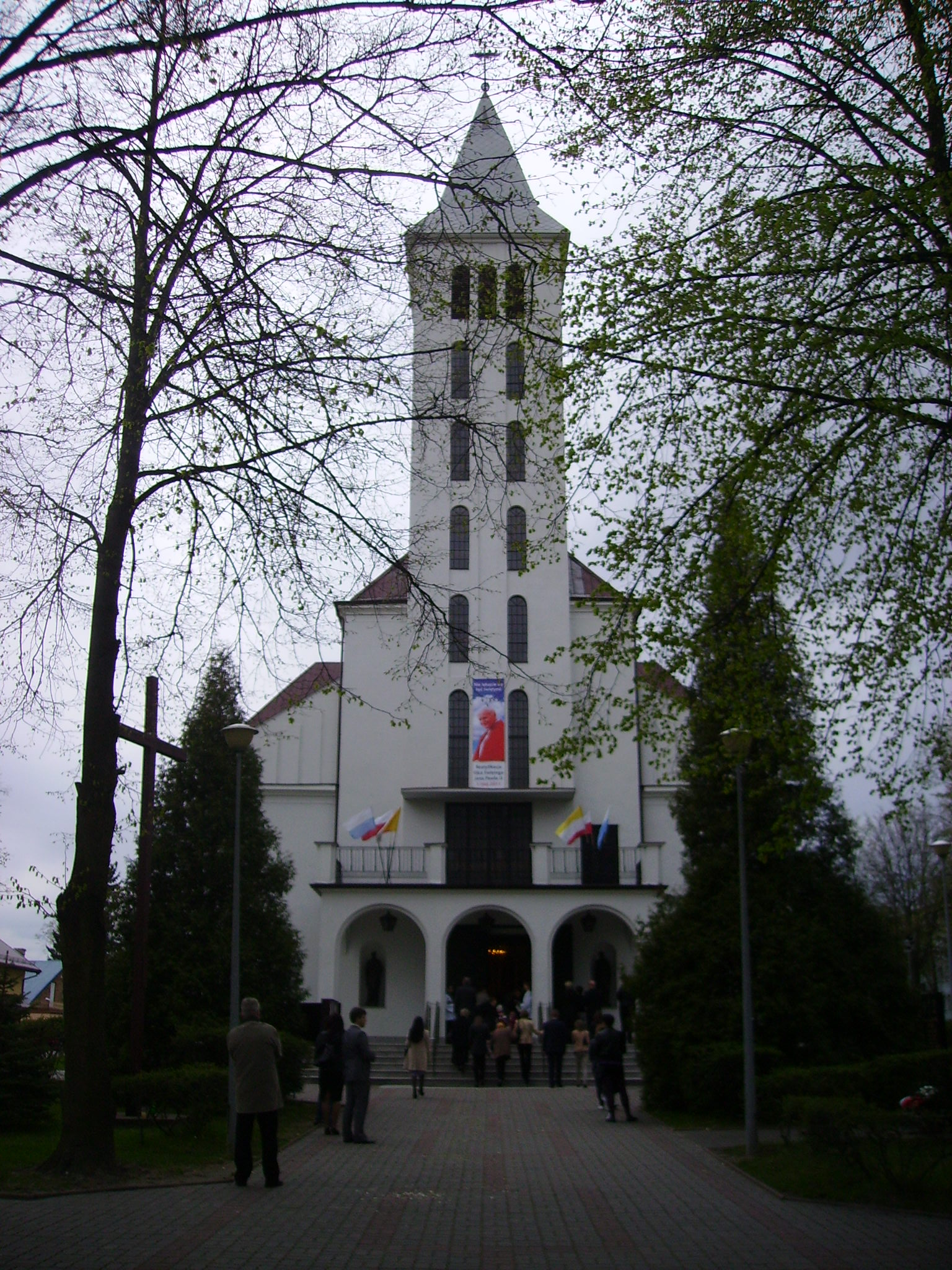 Church of Staint Andrew Bobola in Białystok